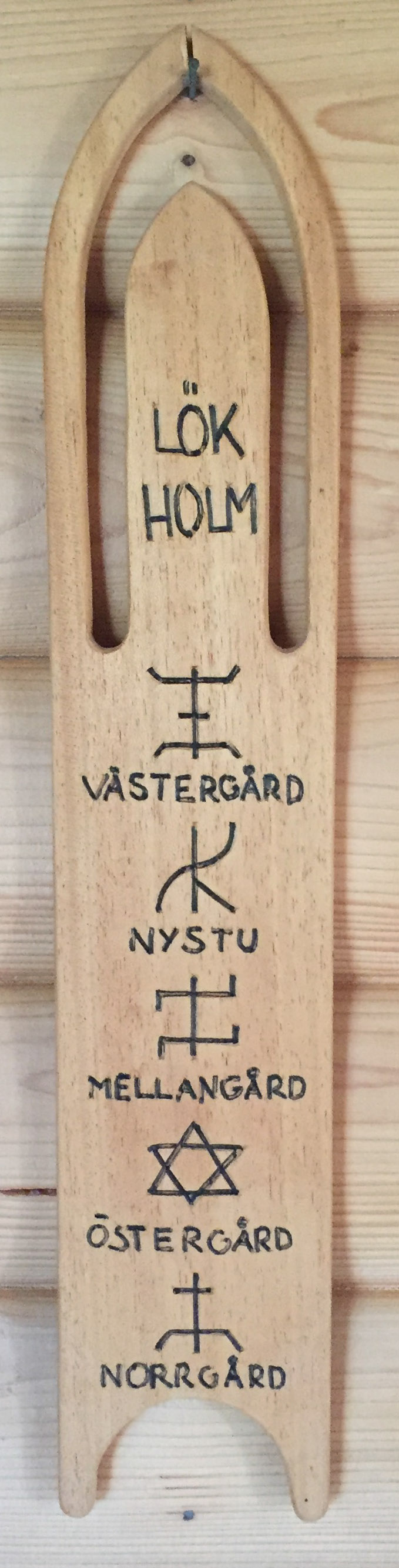 House mark from Lökholm in Nagu, Finland